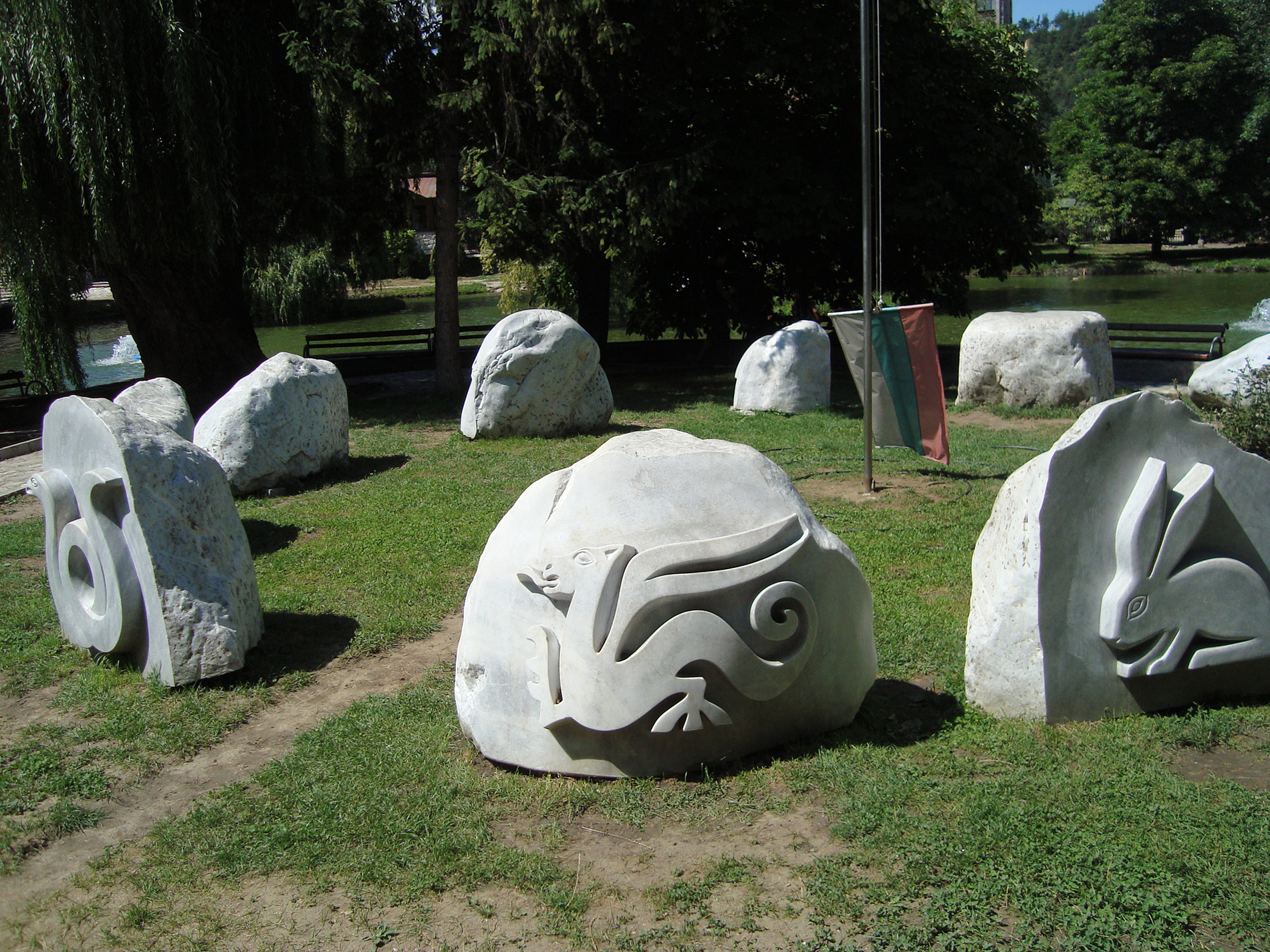 The restored ancient Bulgarian solar calendar, consisting of 12 animals. It is a copy of an archaeological find in Razlog, consisting of a round-shaped stone disc, dating back to the 8th century AD. The Bulgarian calendar is one of the most accurate and is seen as a valuable Bulgarian contribution to world culture.